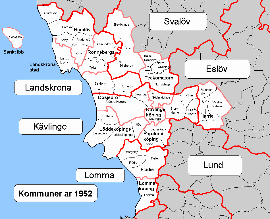 old municipalities of lomma, kävlinge and landskrona